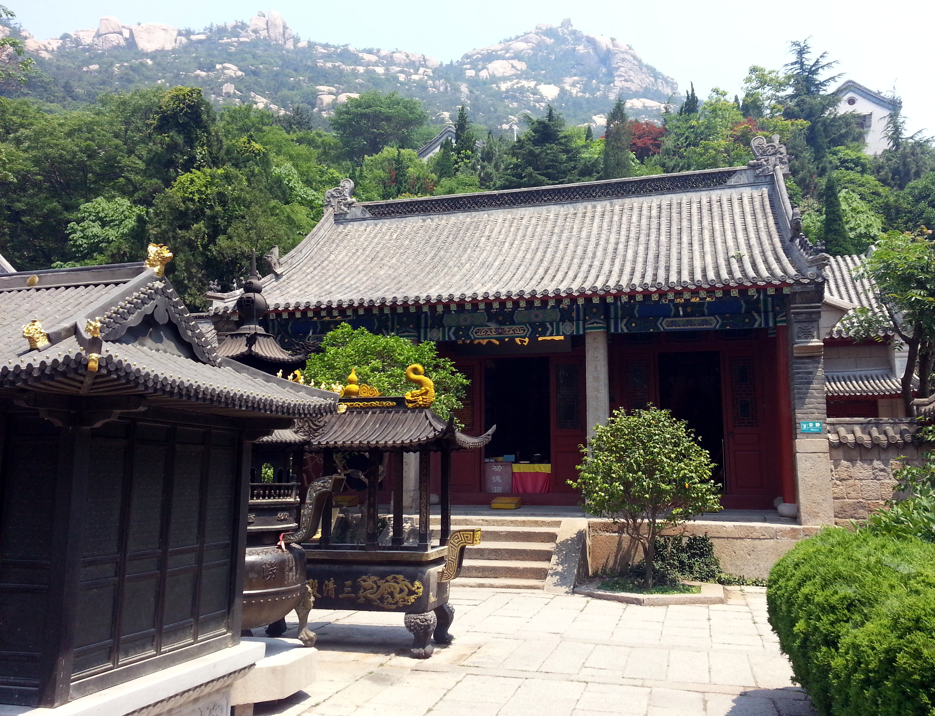 Photograph of a hall on the grounds of the Taiqing Gong Daoist Temple, Mount Lao, Qingdao, Shandong, China.